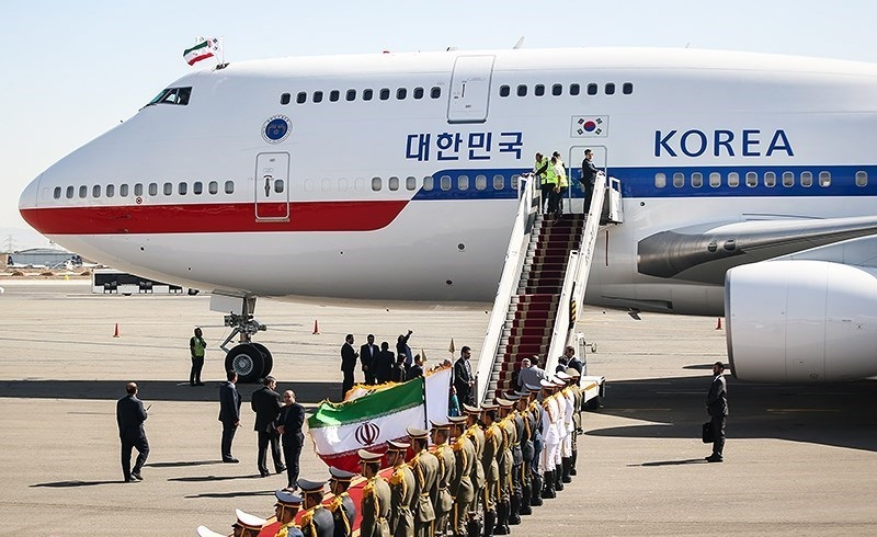 South Korean President arrived Tehran for a state visit